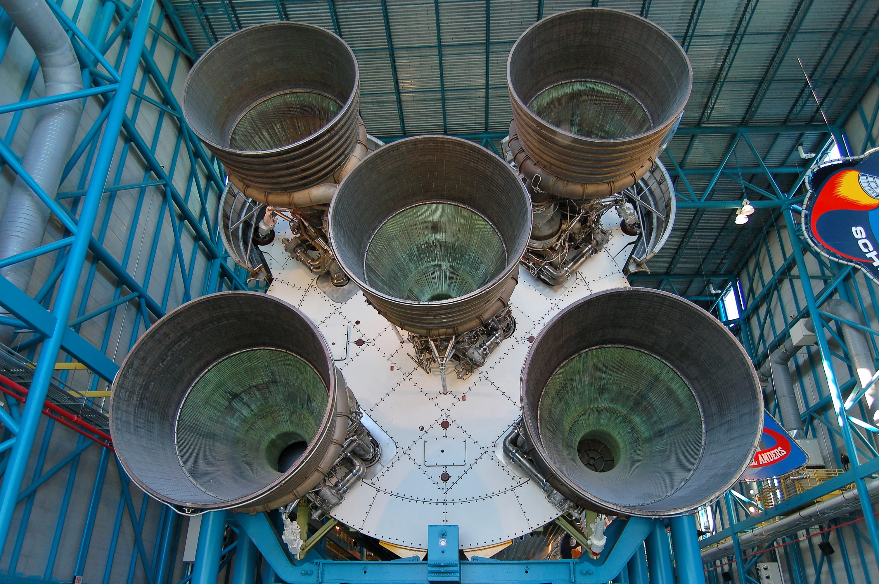 Rocket Engines from the booster stage of the Saturn V rocket.